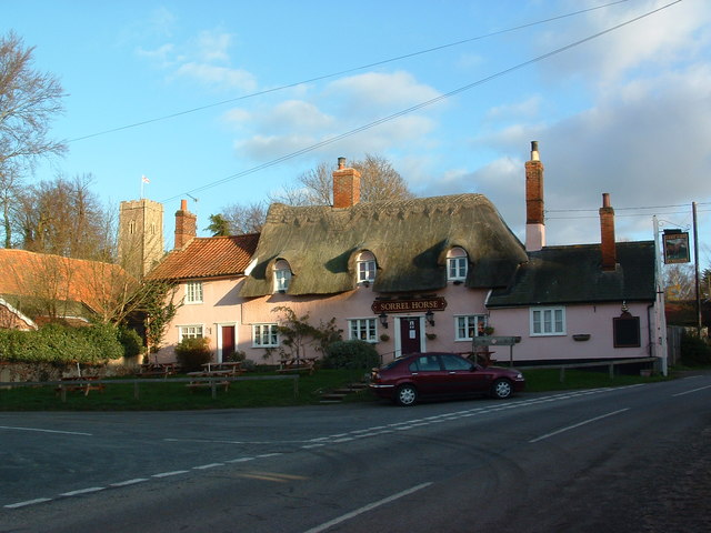 Pub And Church The Sorrel Horse at Shottisham Suffolk with the local church in the background.